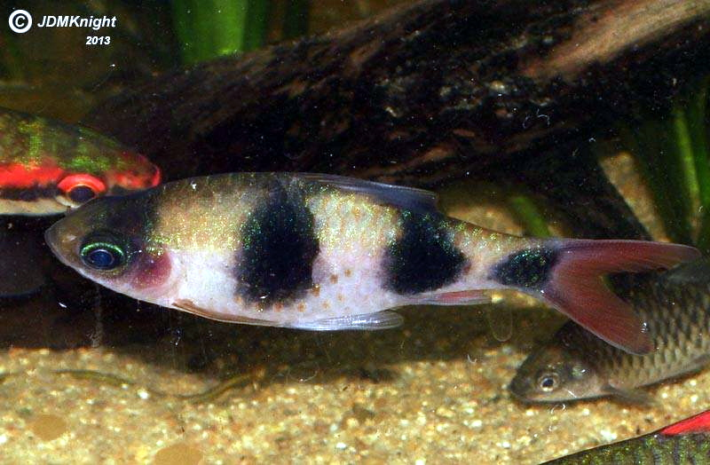 Dawkinsia arulius